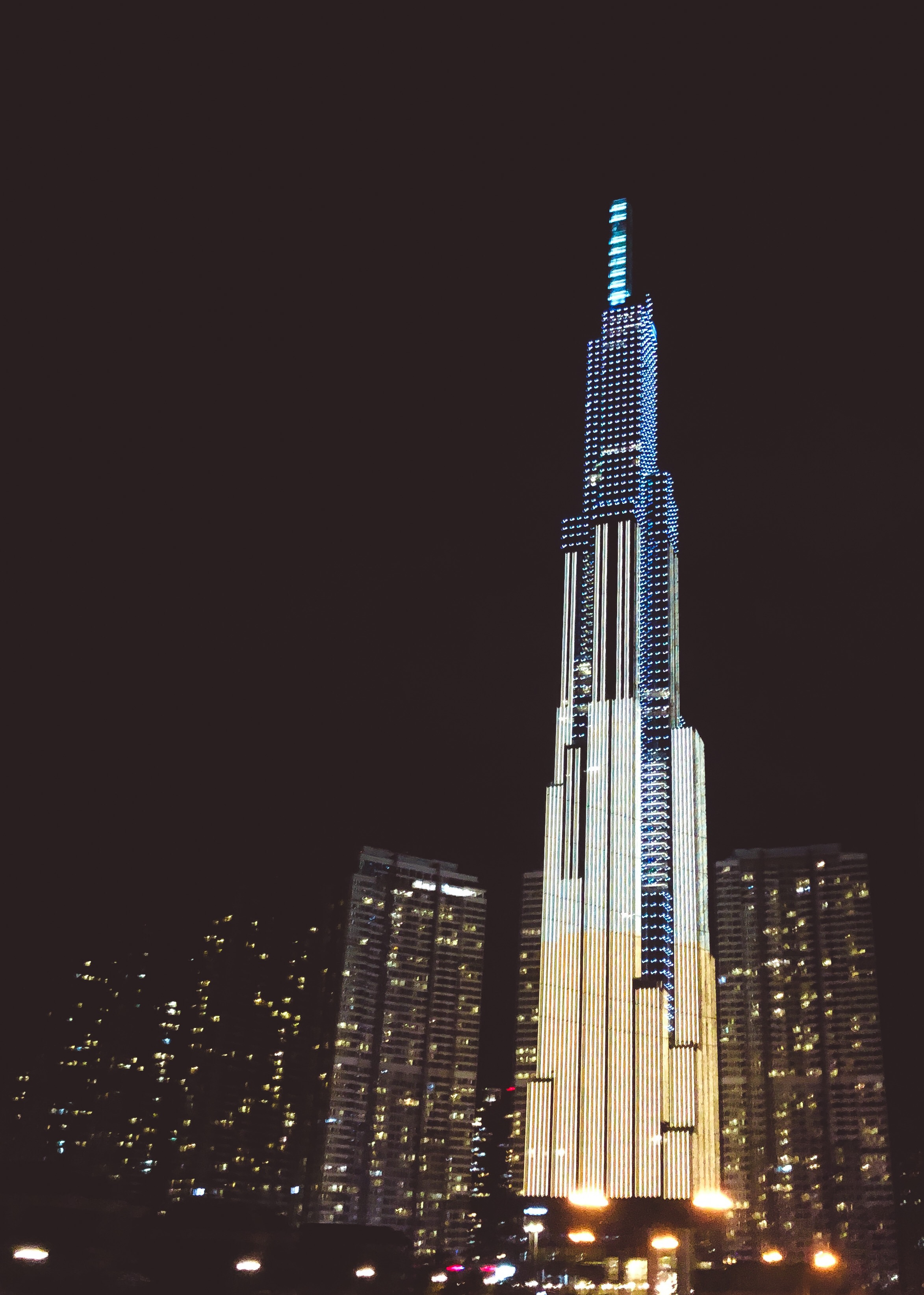 Landmark 81 in Ho Chi Minh City, Vietnam at night.